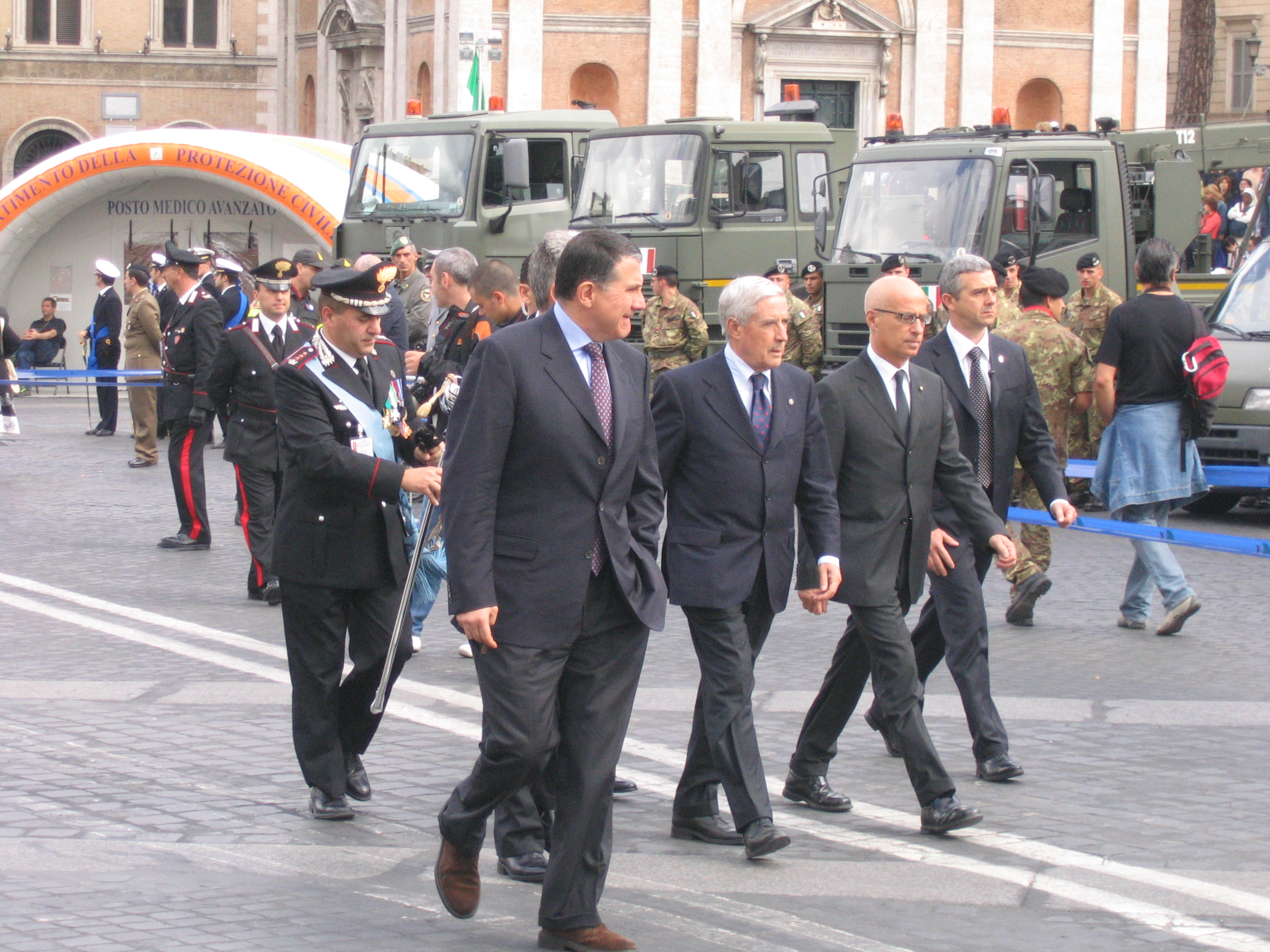 Franco Marini, President of Senate of the Republic, with his escort.